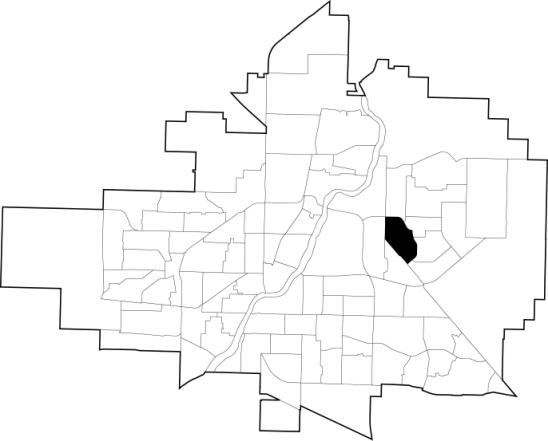 A map showing the location of the Forest Grove neighbourhood in relation to the other neighbourhoods in Saskatoon.